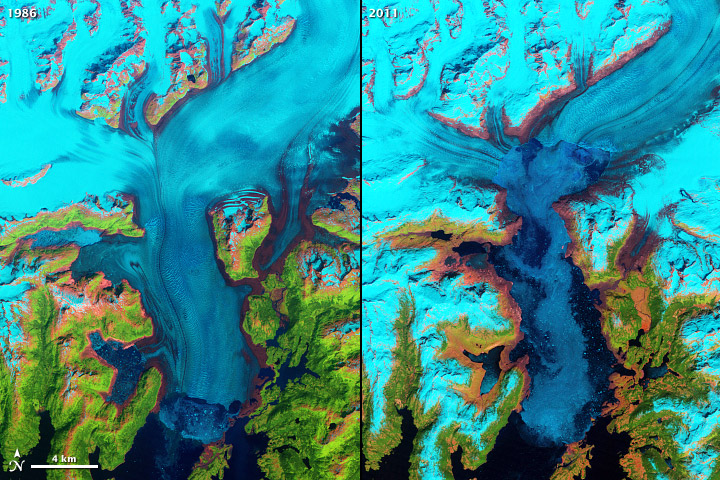 This image shows the Columbia Glacier in Alaska one of many vanishing around the world. Glacier retreat is one of the most direct and understandable effects of climate change.